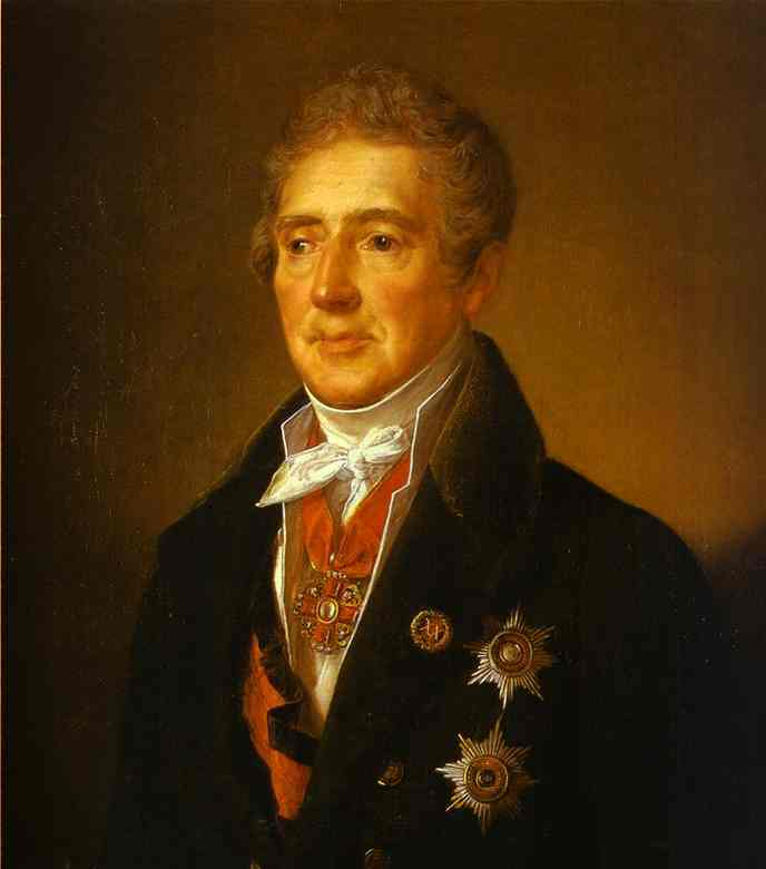 Portrait of I. I. Dmitriyev (1760-1837). 1835. Oil on canvas. The Pushkin Museum, Moscow, Russia.